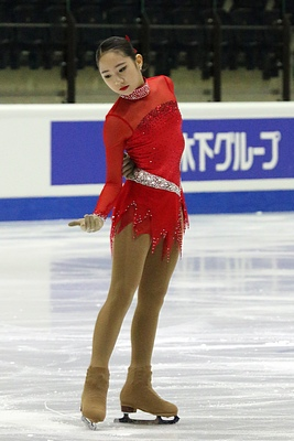 Junior World Championships 2015 – Ladies (Da Bin CHOI KOR – 9th Place)